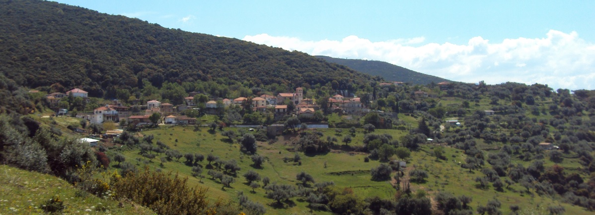 Floka village, Achaia, Greece.